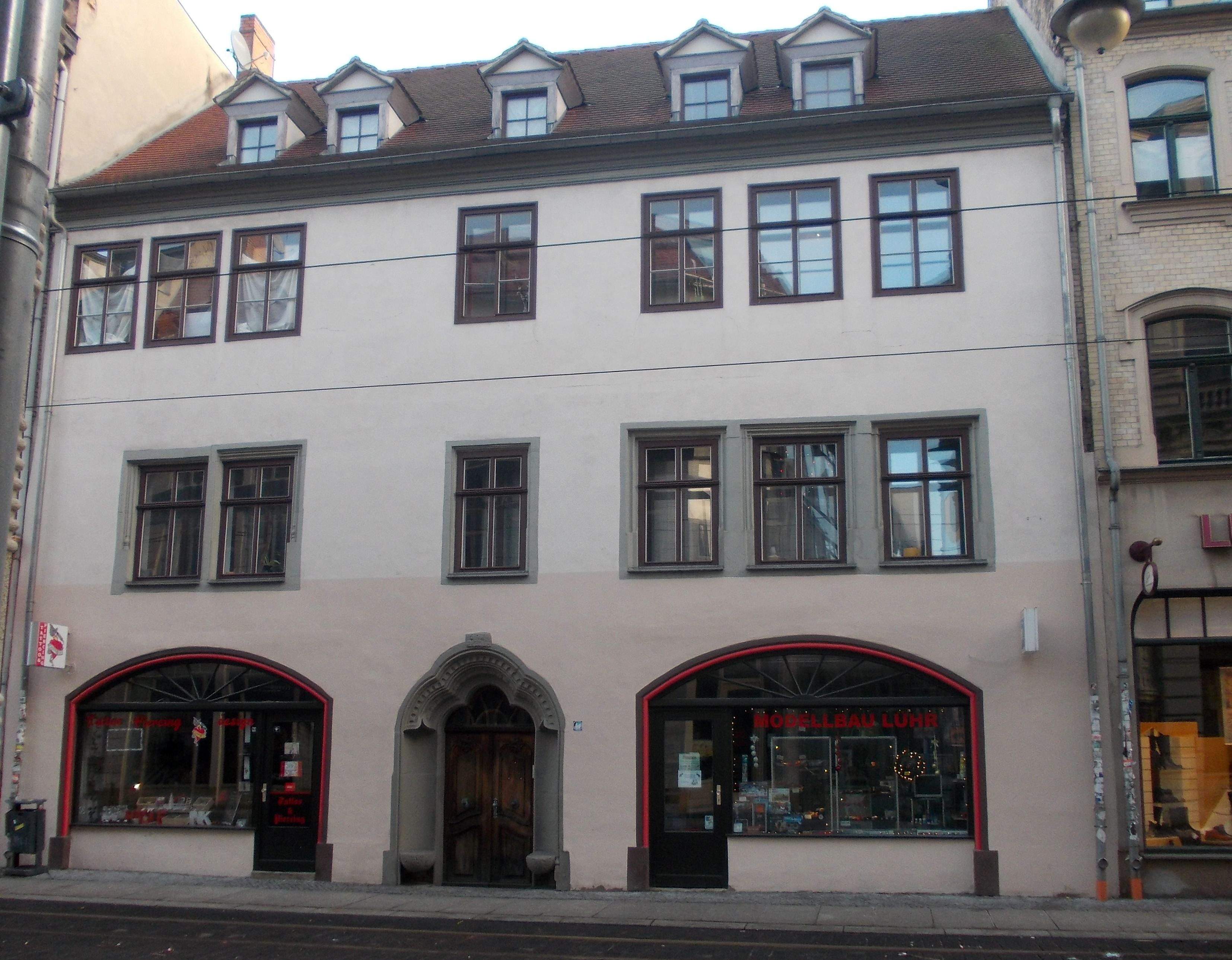 No. 43, Grosse Ulrichstrasse in Halle (Saale), Saxony-Anhalt